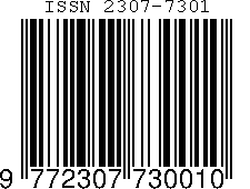 This is the ISSN number of El Mednifico Journal (